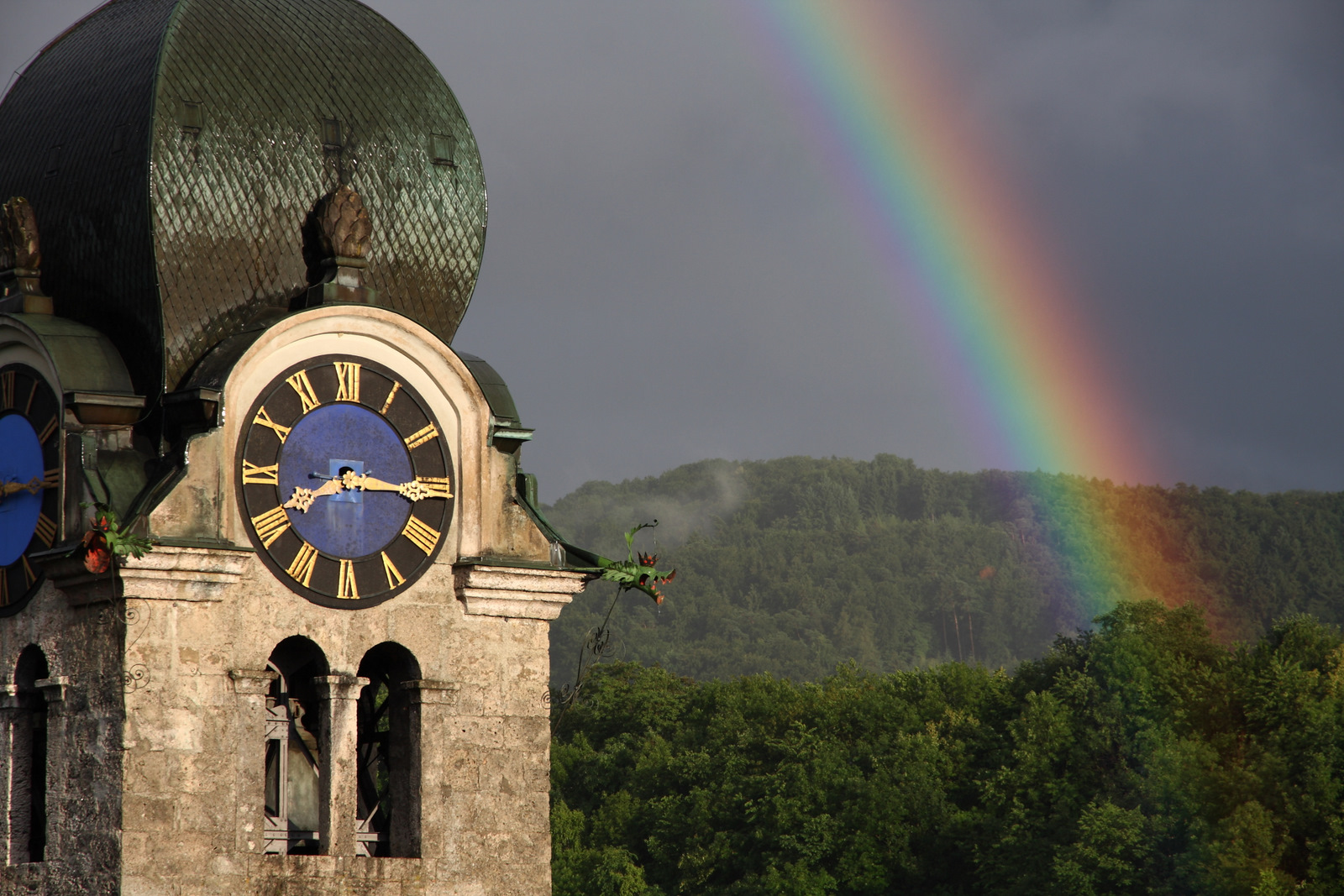 Beautiful rainbow around the church of Eglisau.